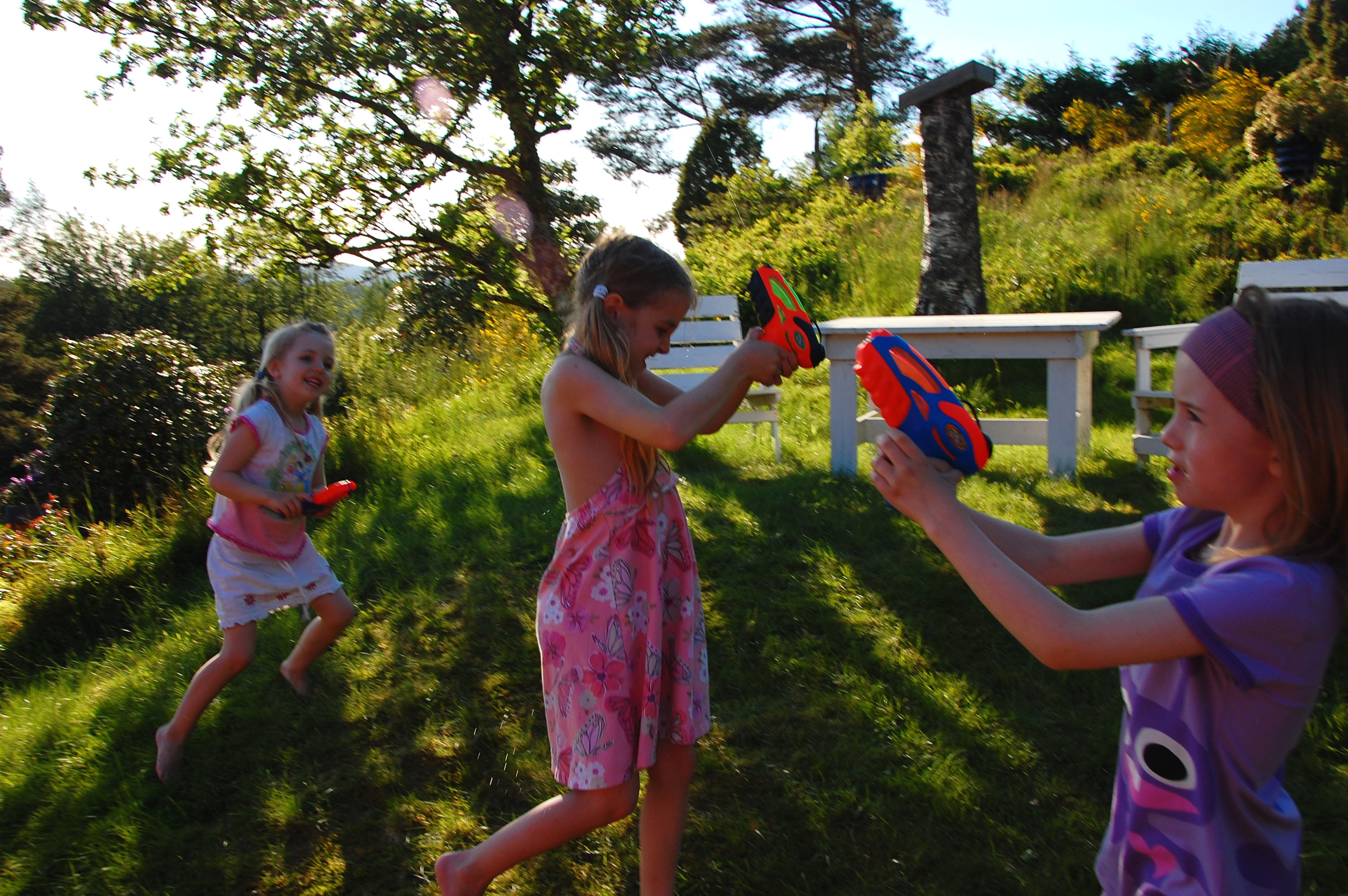 Girls playing with water guns.